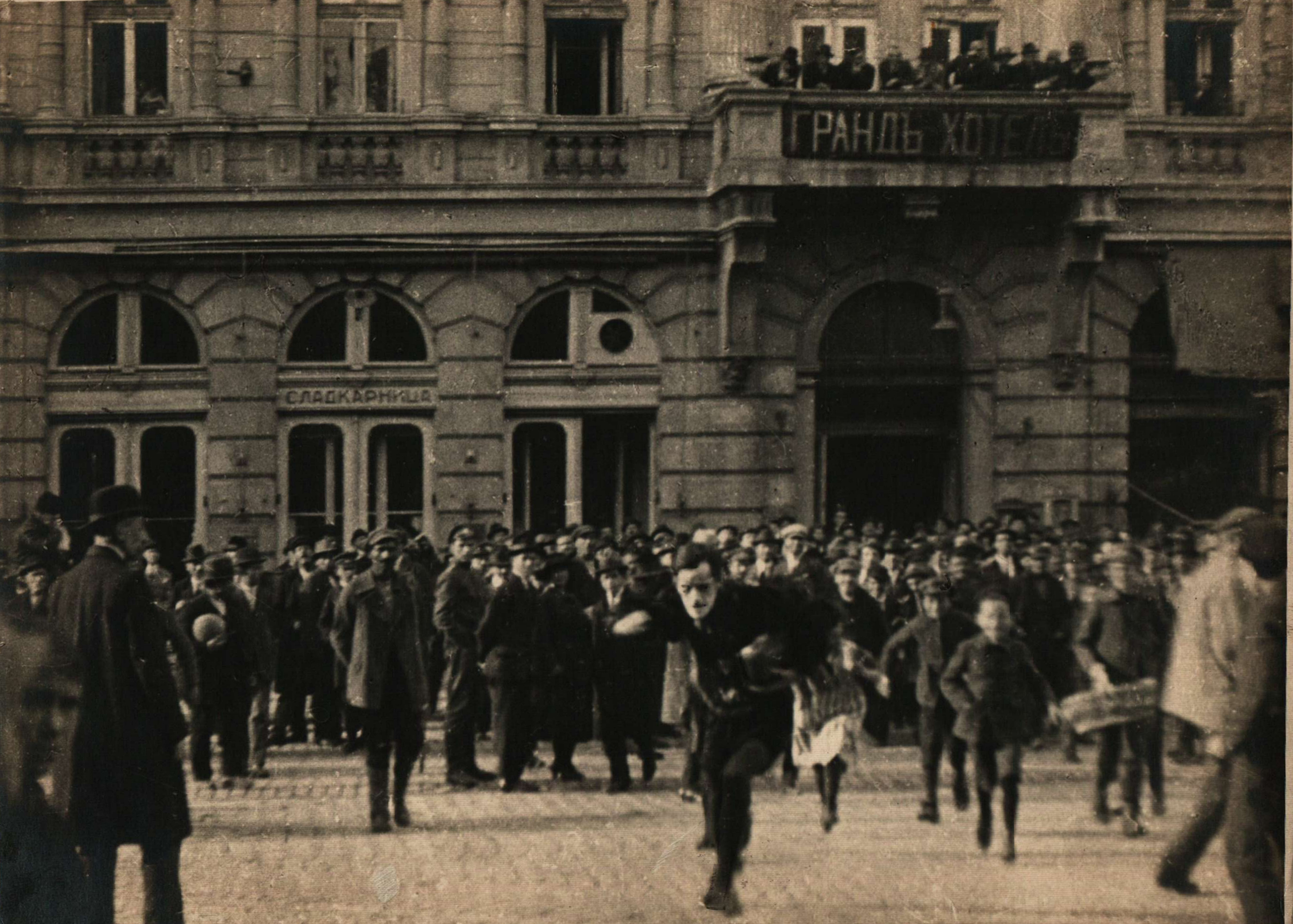 Bulgarian film Dyavolat v Sofia, 1921.